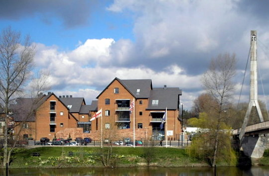 Shrewsbury and Atcham Borough Guildhall. The Guildhall and headquarters of Shrewsbury and Atcham Borough Council, on Frankwell Quay in Shrewsbury.